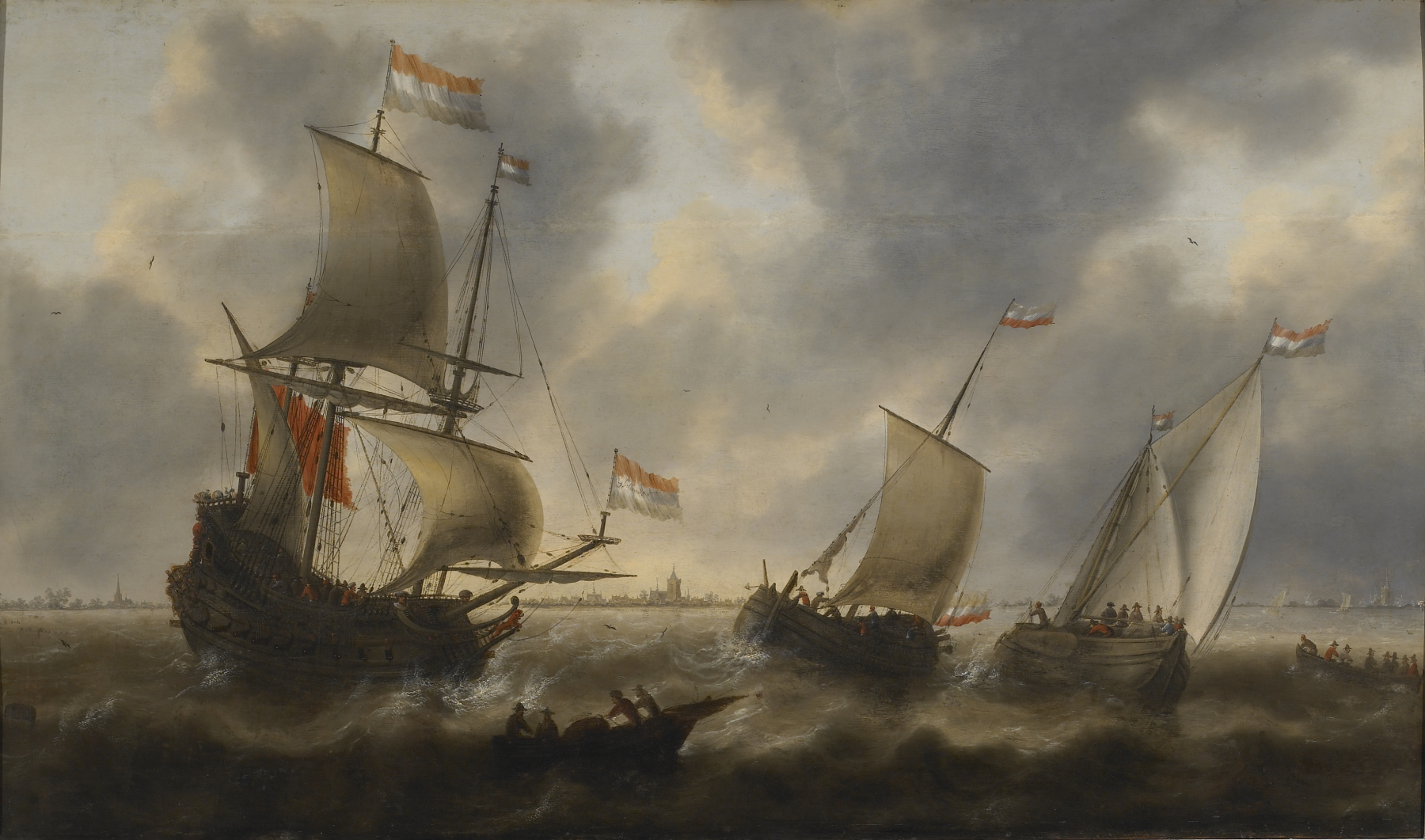 The importance of overseas trade, naval battles with Spain and then England, and fishing created a great demand for marine subjects. Most do not depict specific events; however, given the moral consciousness of the times, a painting of a storm at sea-just like the actual phenomenon-might prompt thoughts on the precariousness of life. Bellevois specialized in scenes of the sea and maritime life. He inserted his signature on the Dutch flag flying from the foremast of the warship at the left.